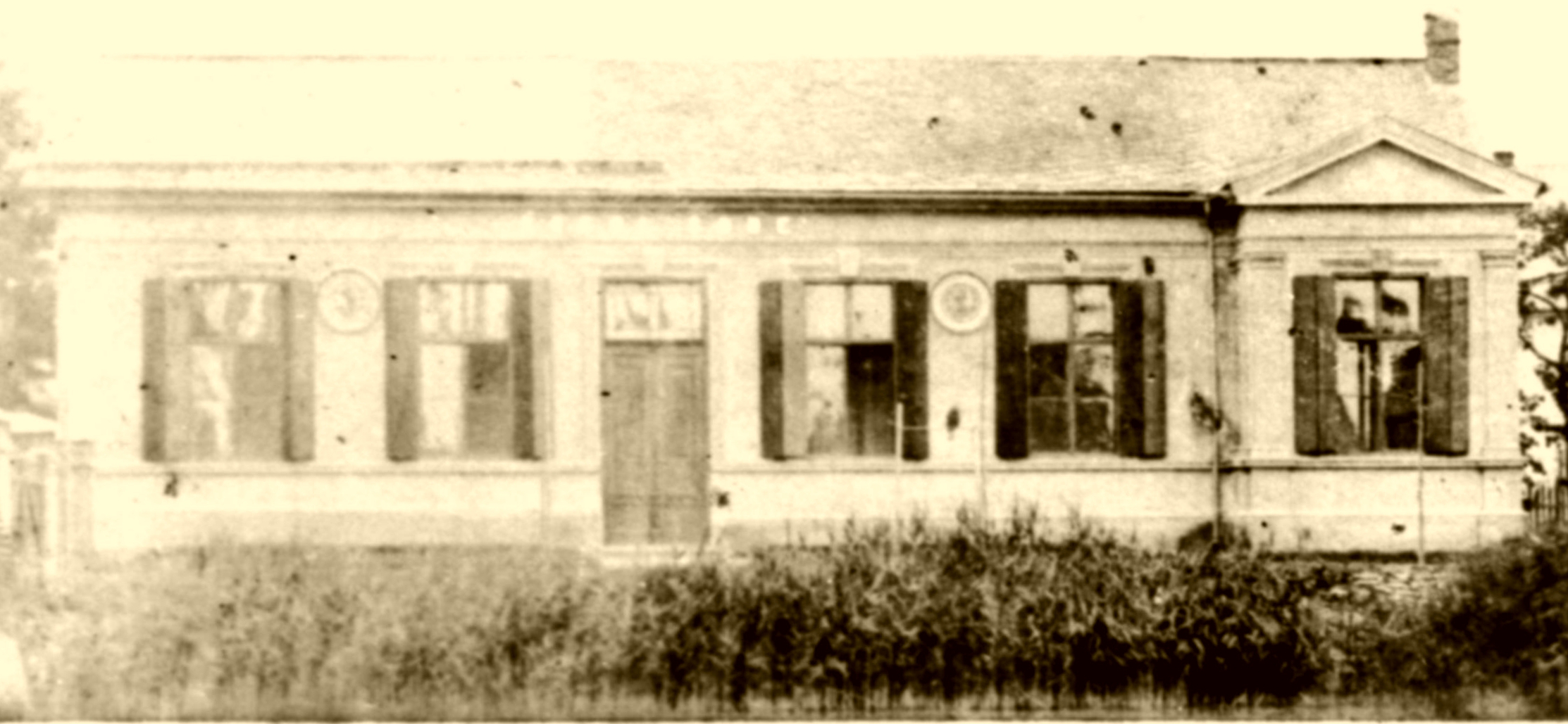 Original Sokol House in Litovel, later rebuilt into the church of the Czechoslovak Hussite Church.